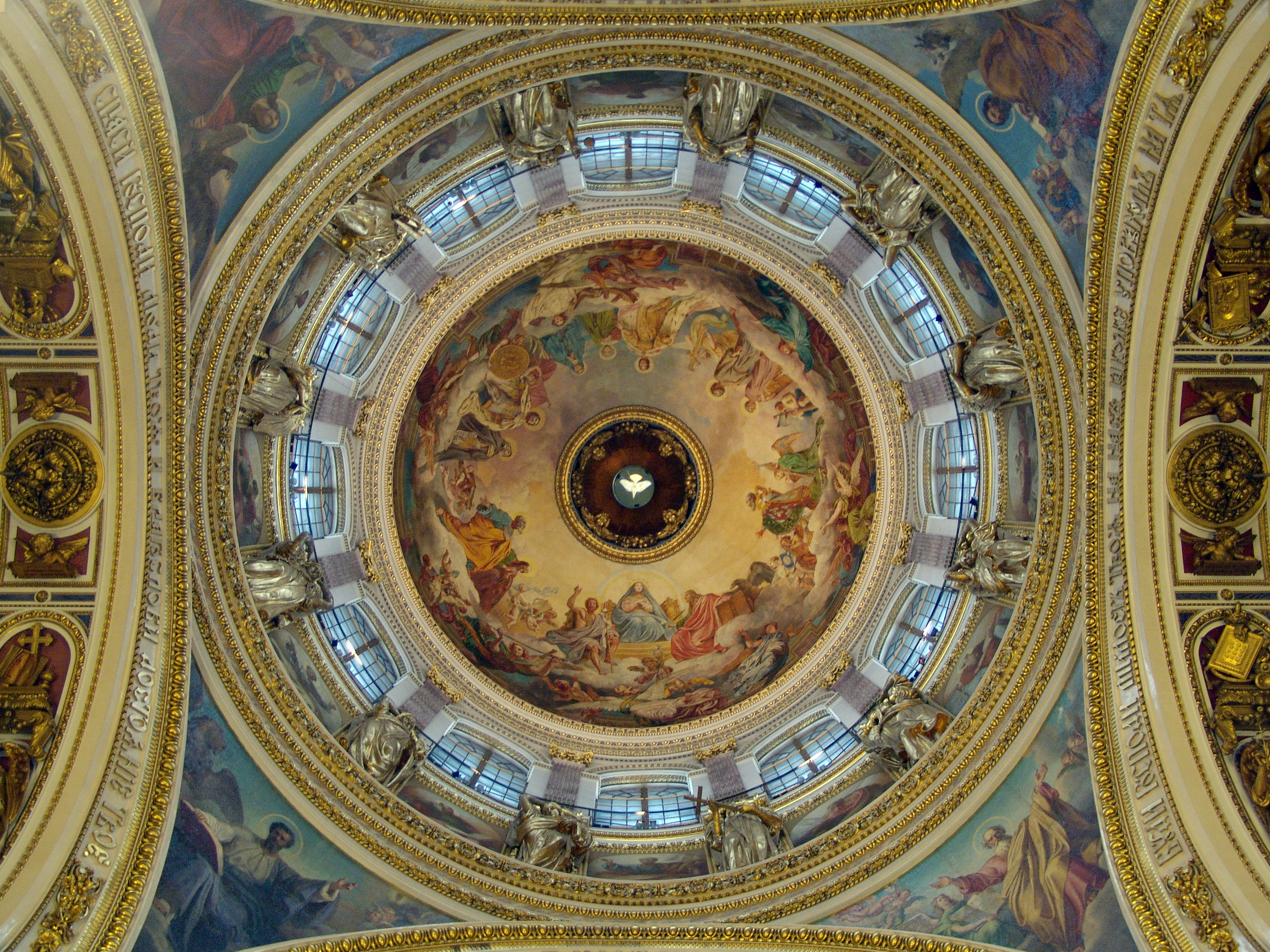 Saint-Petersburg. The Cathedral of Reverend Isaac of Dalmatia (Isaac's). Main dome plafond: K. P. Briullov, "The Virgin Surrounded by Saints"